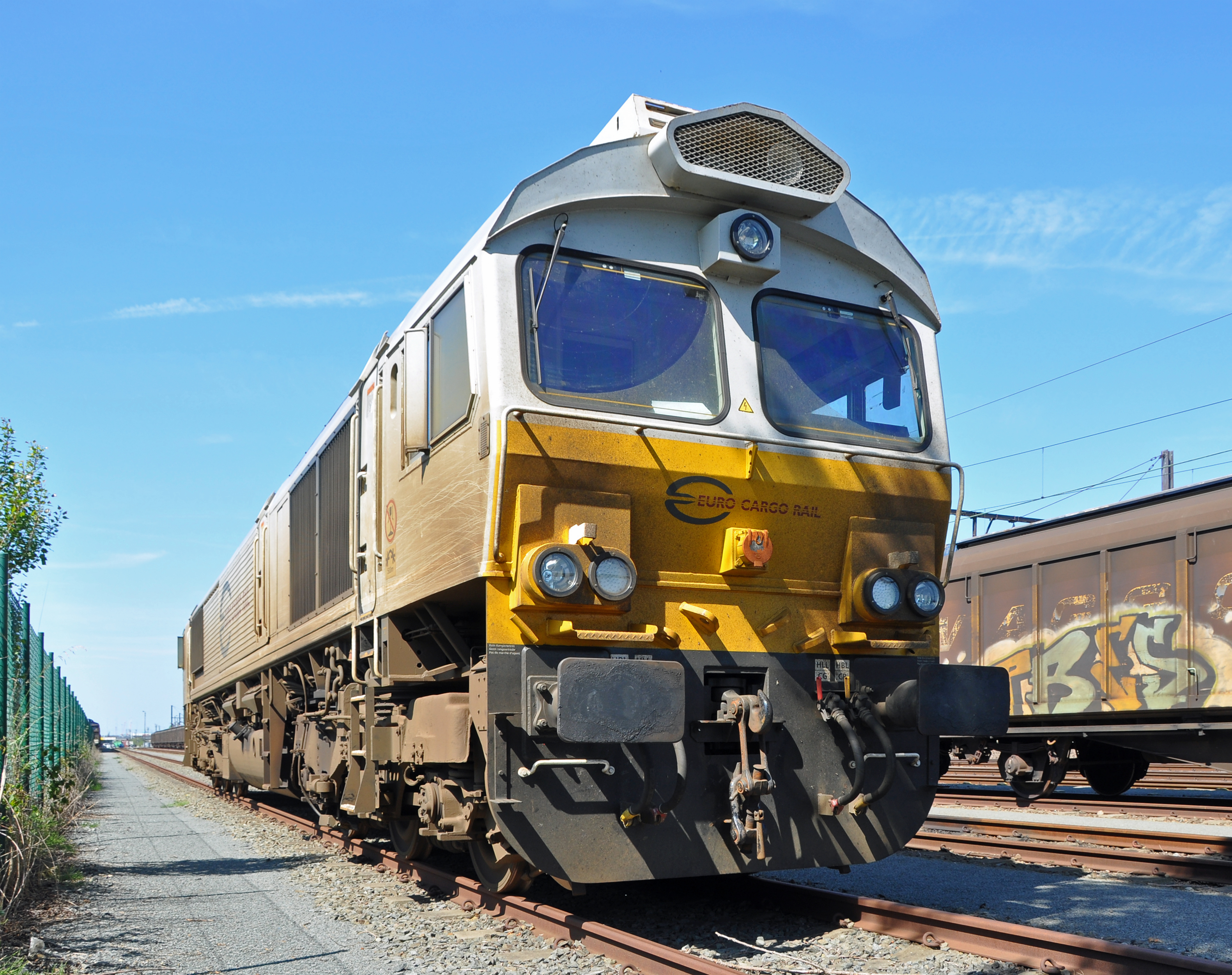 Locomotive #77030 of private rail freight operator Euro Cargo Rail in 'Zeebrugge-Vorming' marshalling yard (Zeebrugge, Belgium)